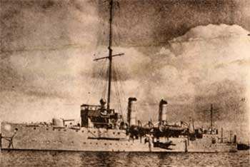 The Chinese Gunboat "Chung-shan", which was sunk by Japanese bombers in 1938.